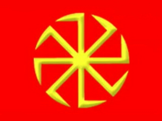 Kolovrat ("spoked wheel"), sometimes called a "Slavic swastika" (but eight-fold), widely used as a religious symbol of Rodnovery (Slavic Native Faith).